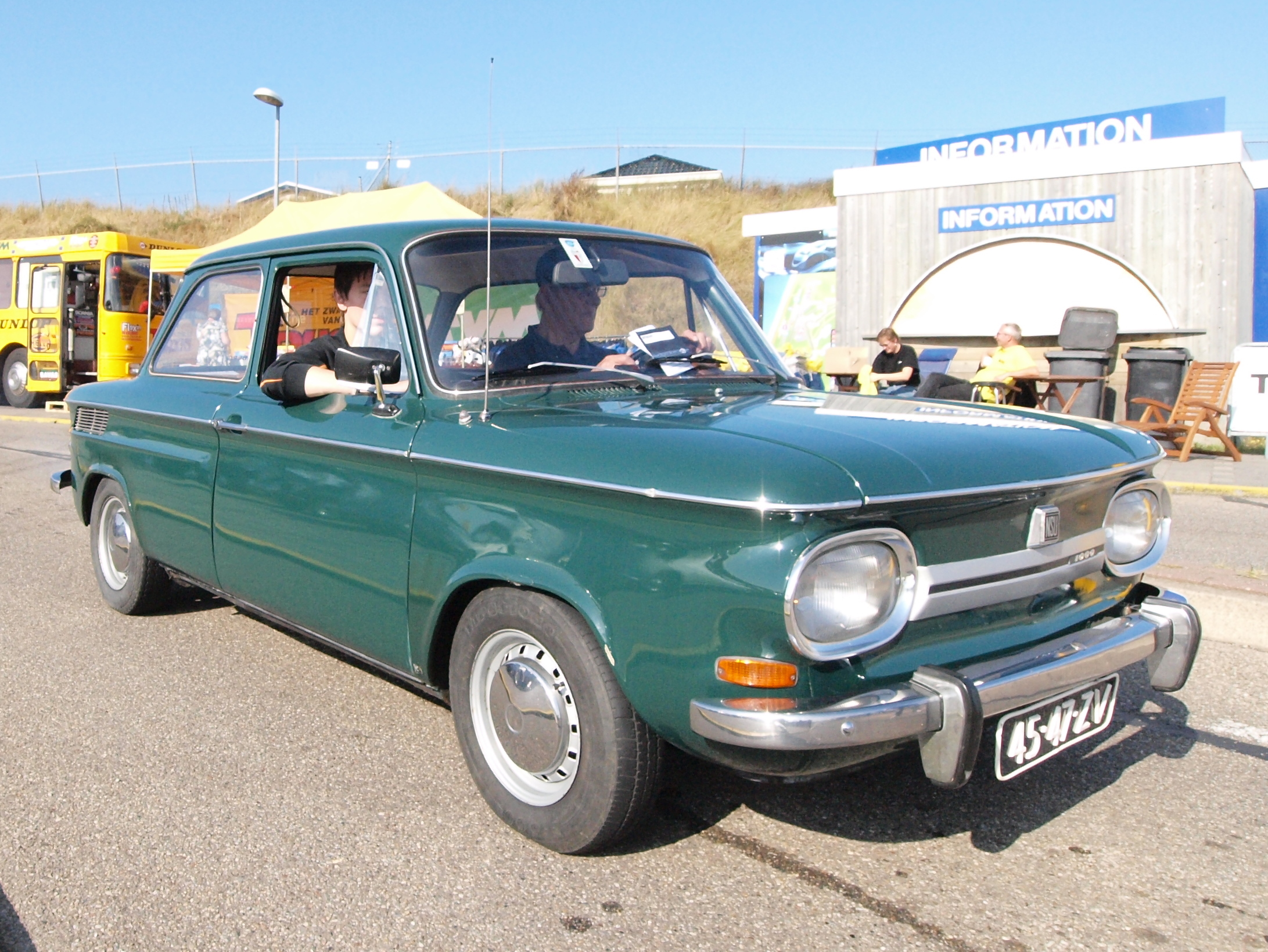 Photographed at the Nationaal Oldtimer Festival Zandvoort 2009, The Netherlands. OLYMPUS DIGITAL CAMERA